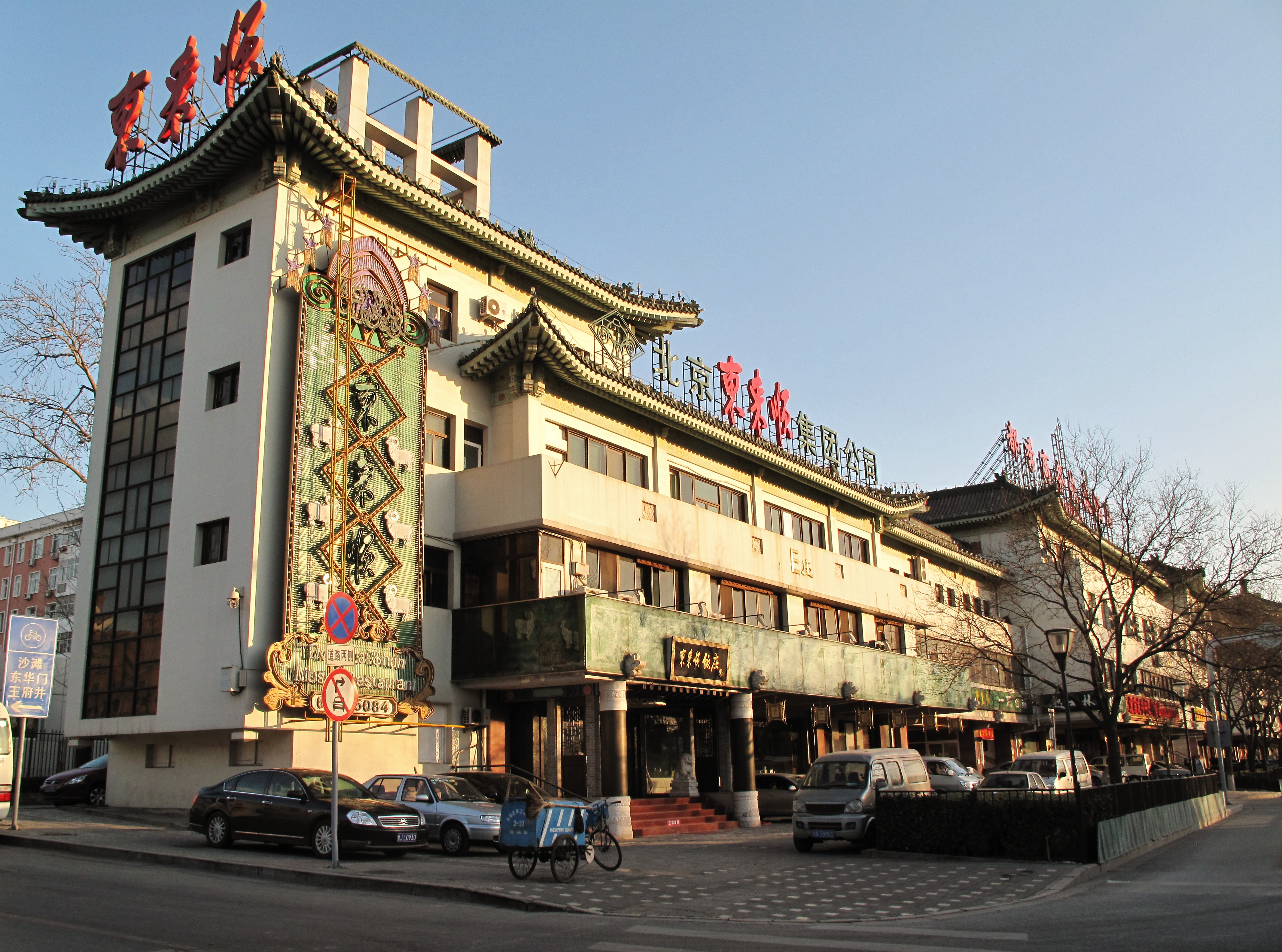 Building in Legation Quarter,Beijing,China.